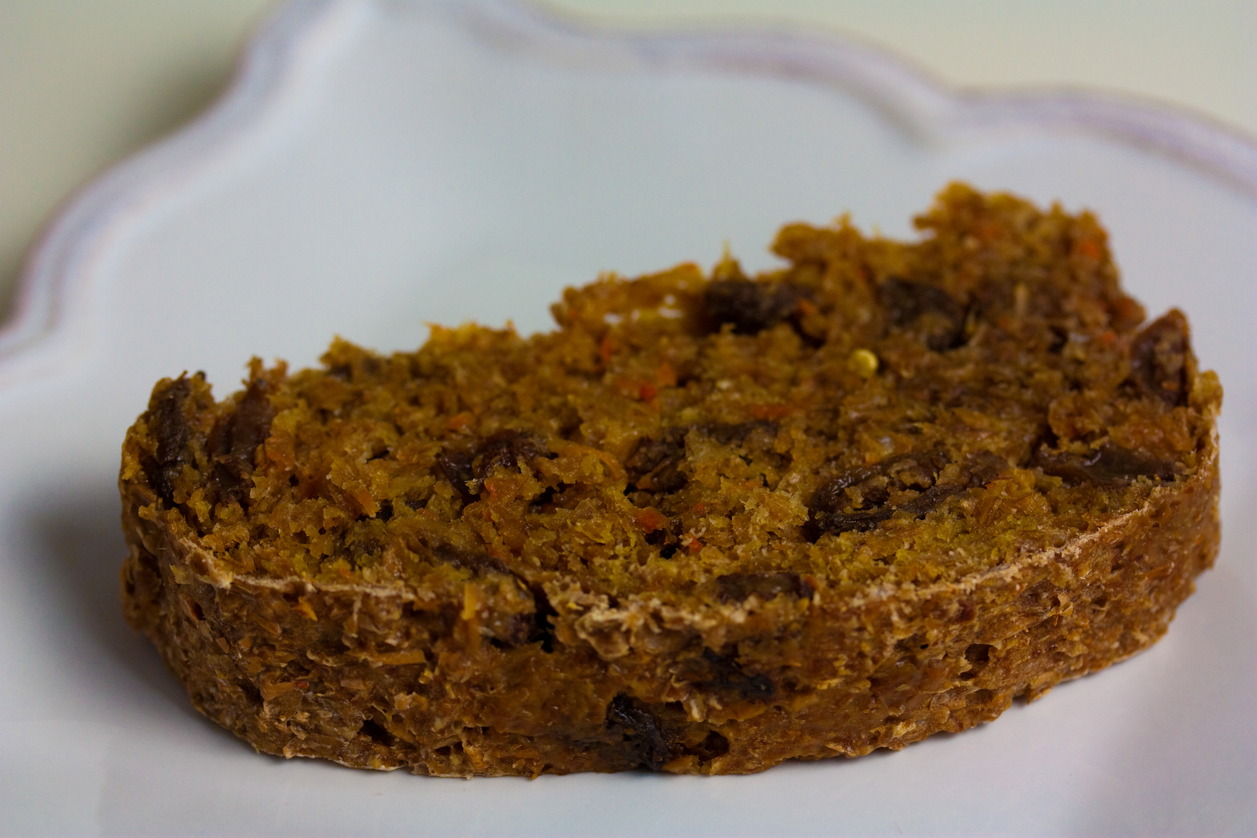 Vegan Carrot Raisin Manna Bread